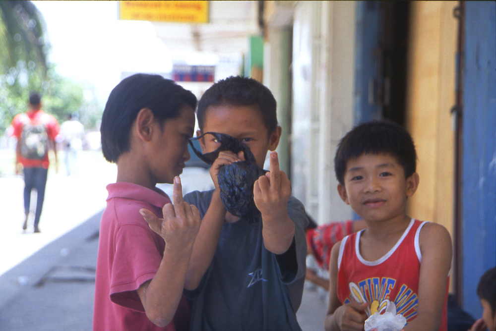 Street boys of Keningau sniffing glue, Sabah, Borneo